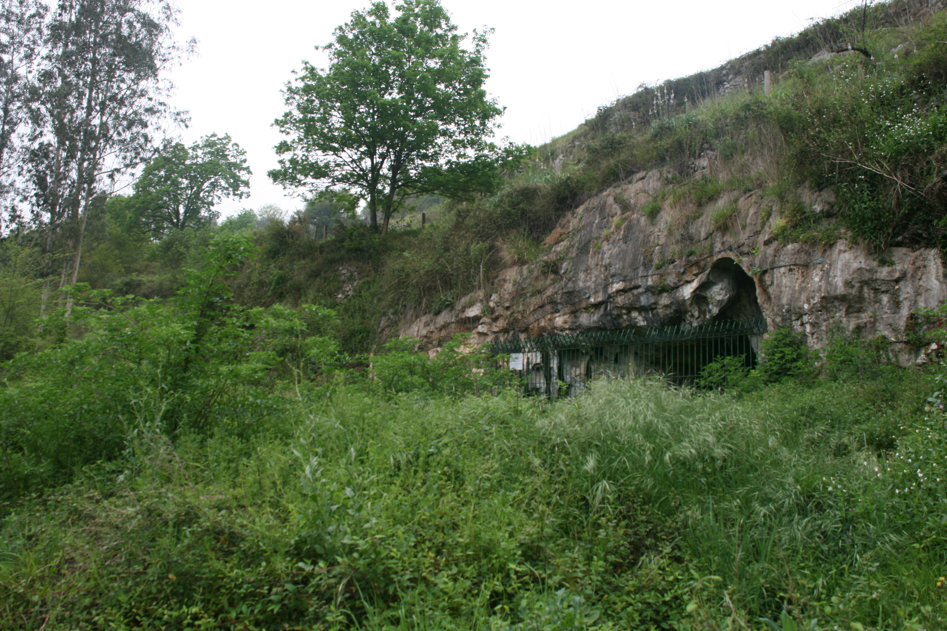 La Lluera I cave, Asturias (Spain). Solutrean and magdalenian paintings.